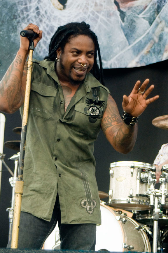 Lajon Witherspoon, lead vocals of the Heavy Metal band Sevendust, performs at Rock on the Range 2010 in Columbus, OH, USA on May 23, 2010. Photo by Adam Bielawski